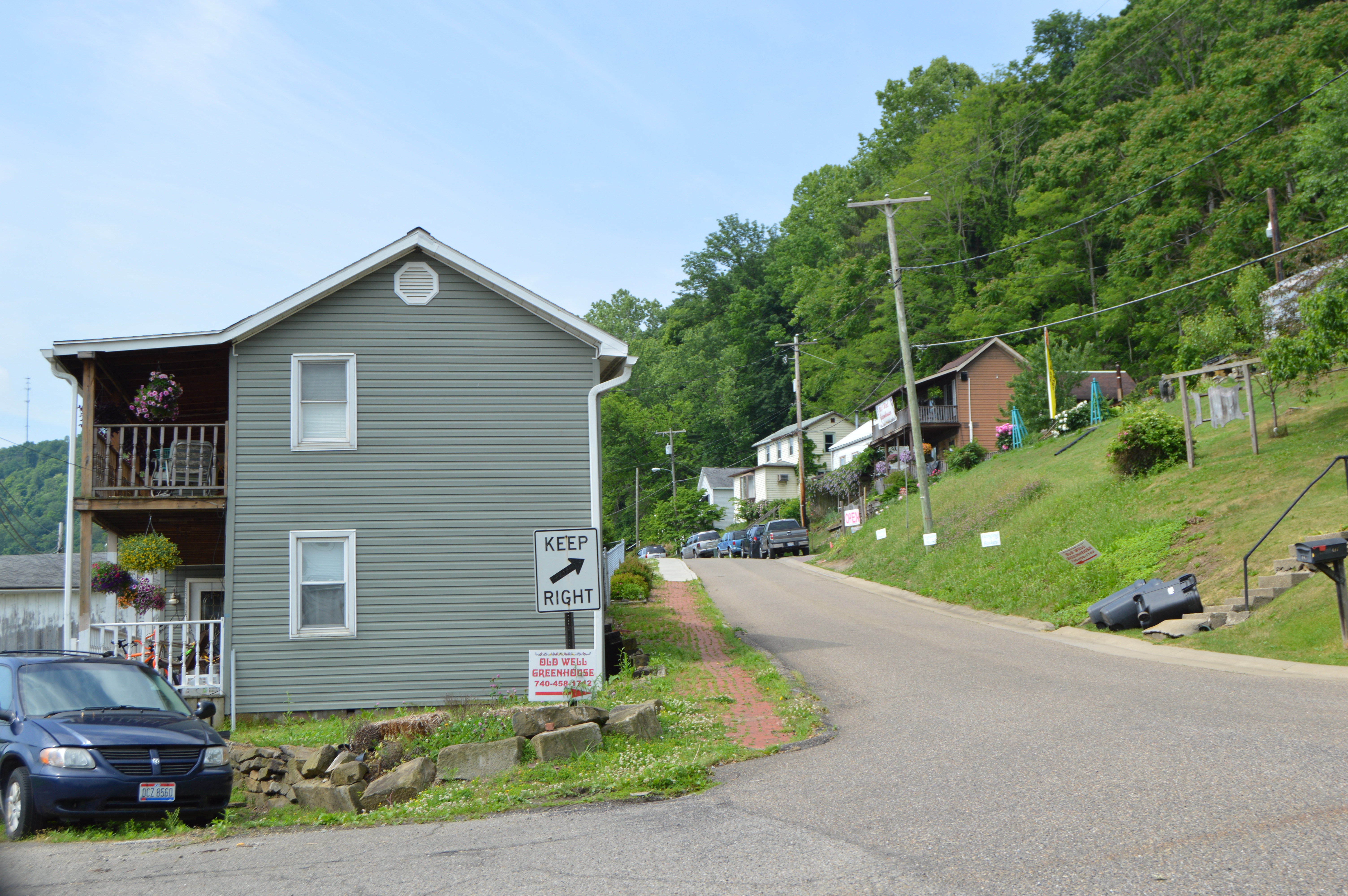 Looking south on Market Street from the post office in Clarington, Ohio, United States.